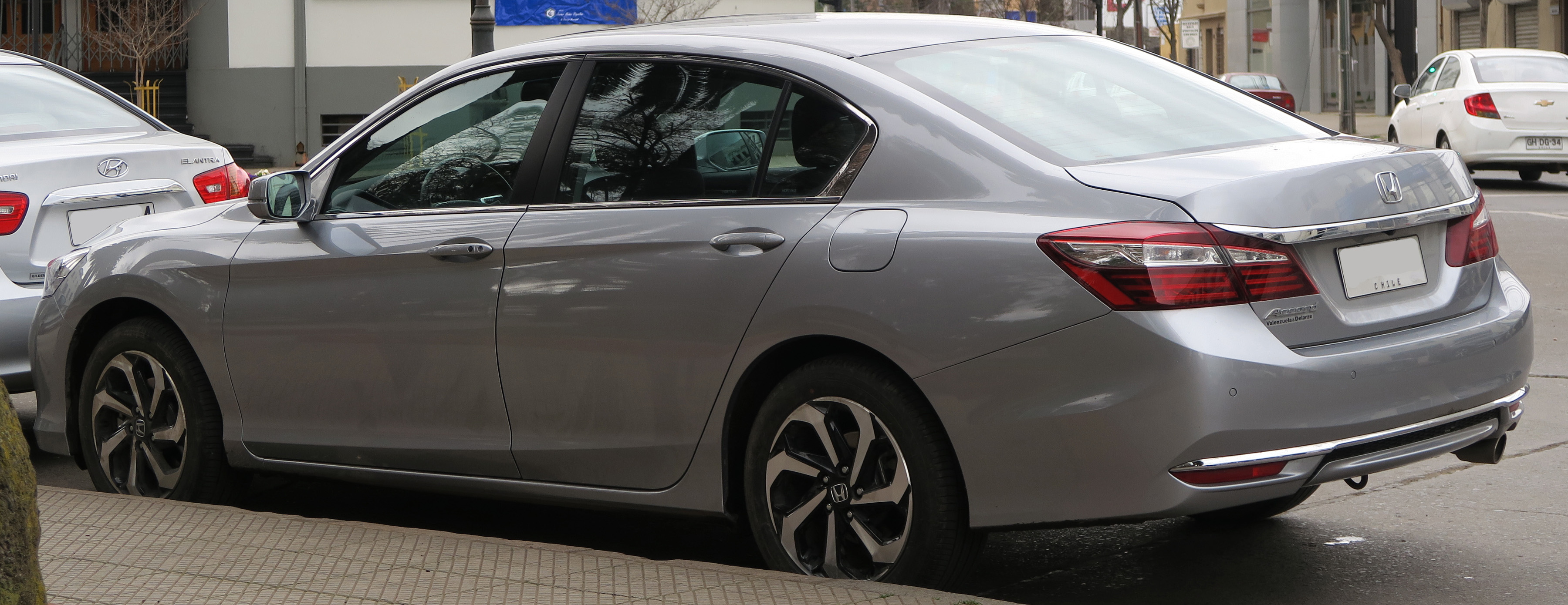 Honda Accord 2.4 EXL 2016